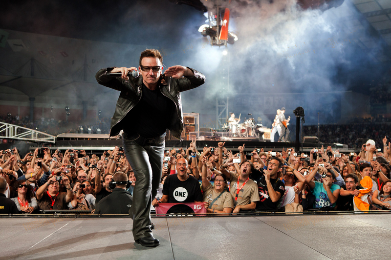 Coimbra, PORTUGAL: U2 performing live at Estadio Cidade de Coimbra in Coimbra, Saturday, Oct. 2, 2010. Photo by Rui M. Leal